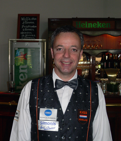 Dutch carom billiards player